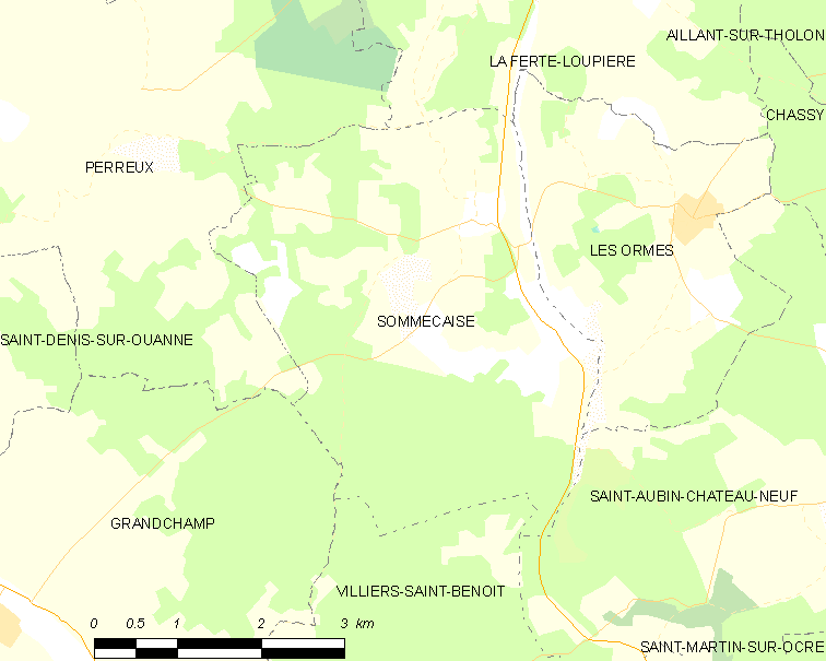 Map of French municipality Sommecaise